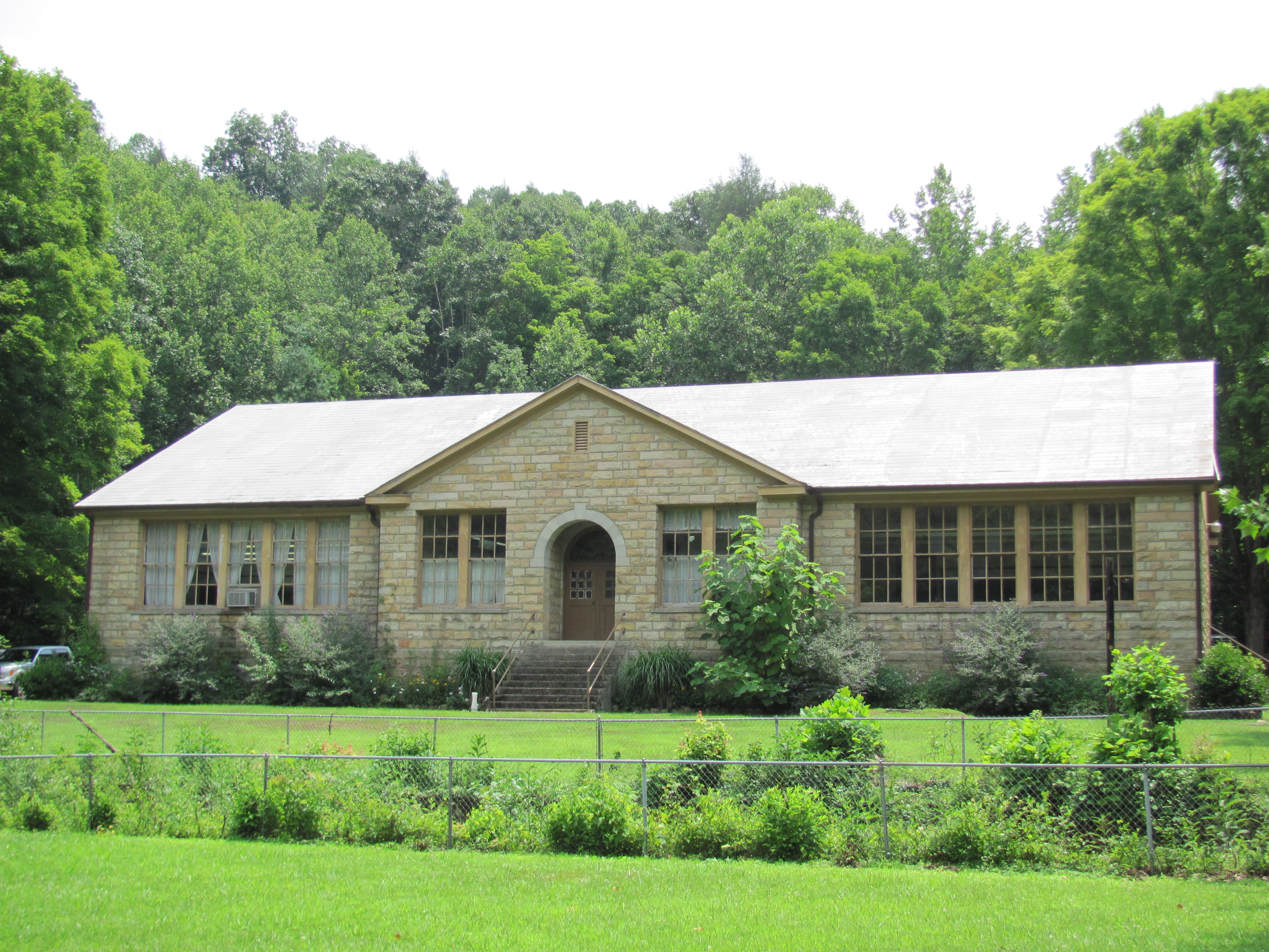 Current photo of Flat Gap High School (Now called Community Center)